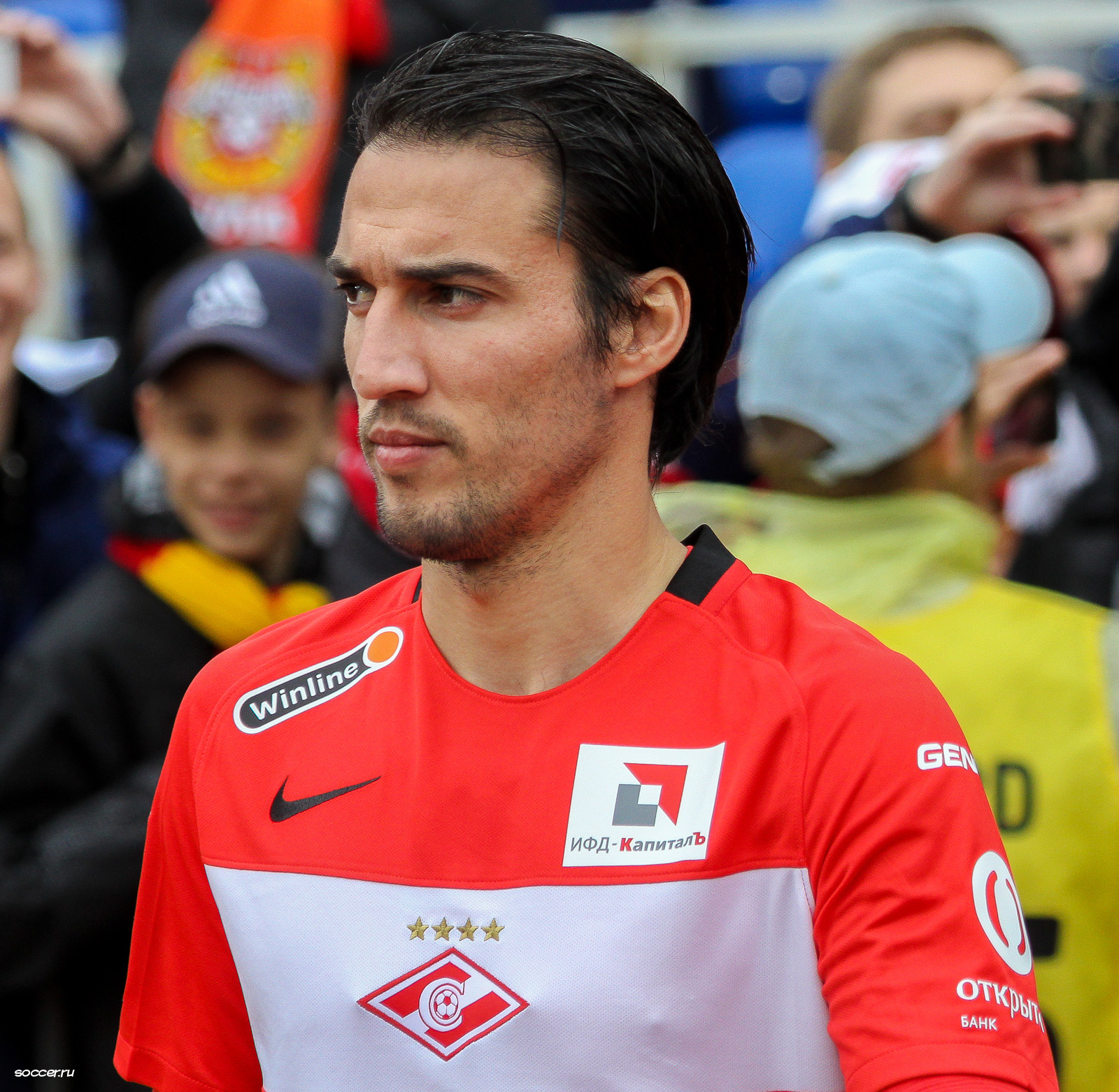 Ivelin Popov